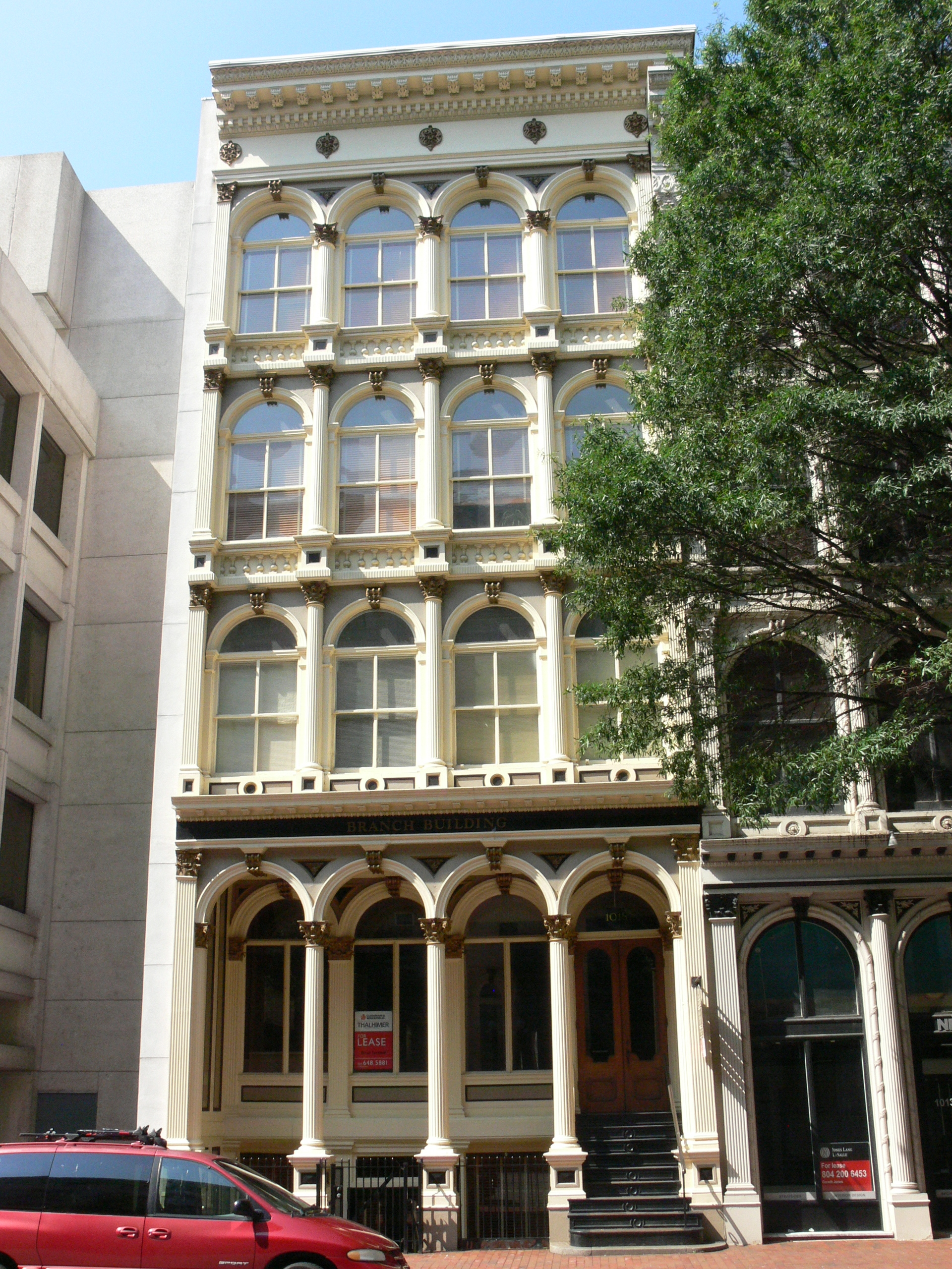 The Branch Building in the financial district of Richmond, Virginia; on the National Register of Historic Places